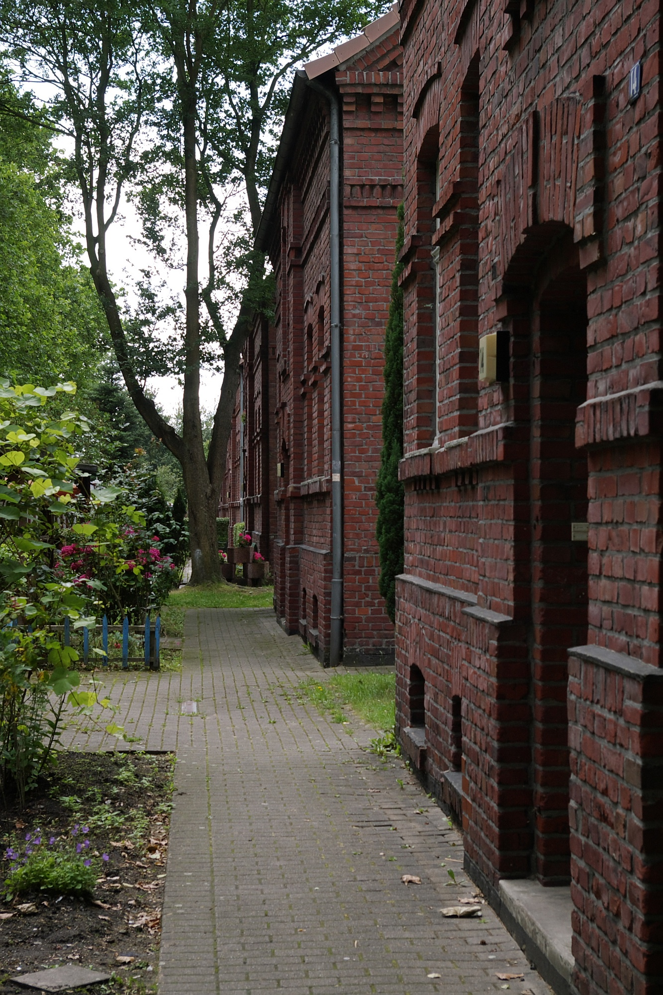 Former coal miners housing estate "Siedlung Ziethenstraße" in Lünen, Germany. Cultural heritage monument.